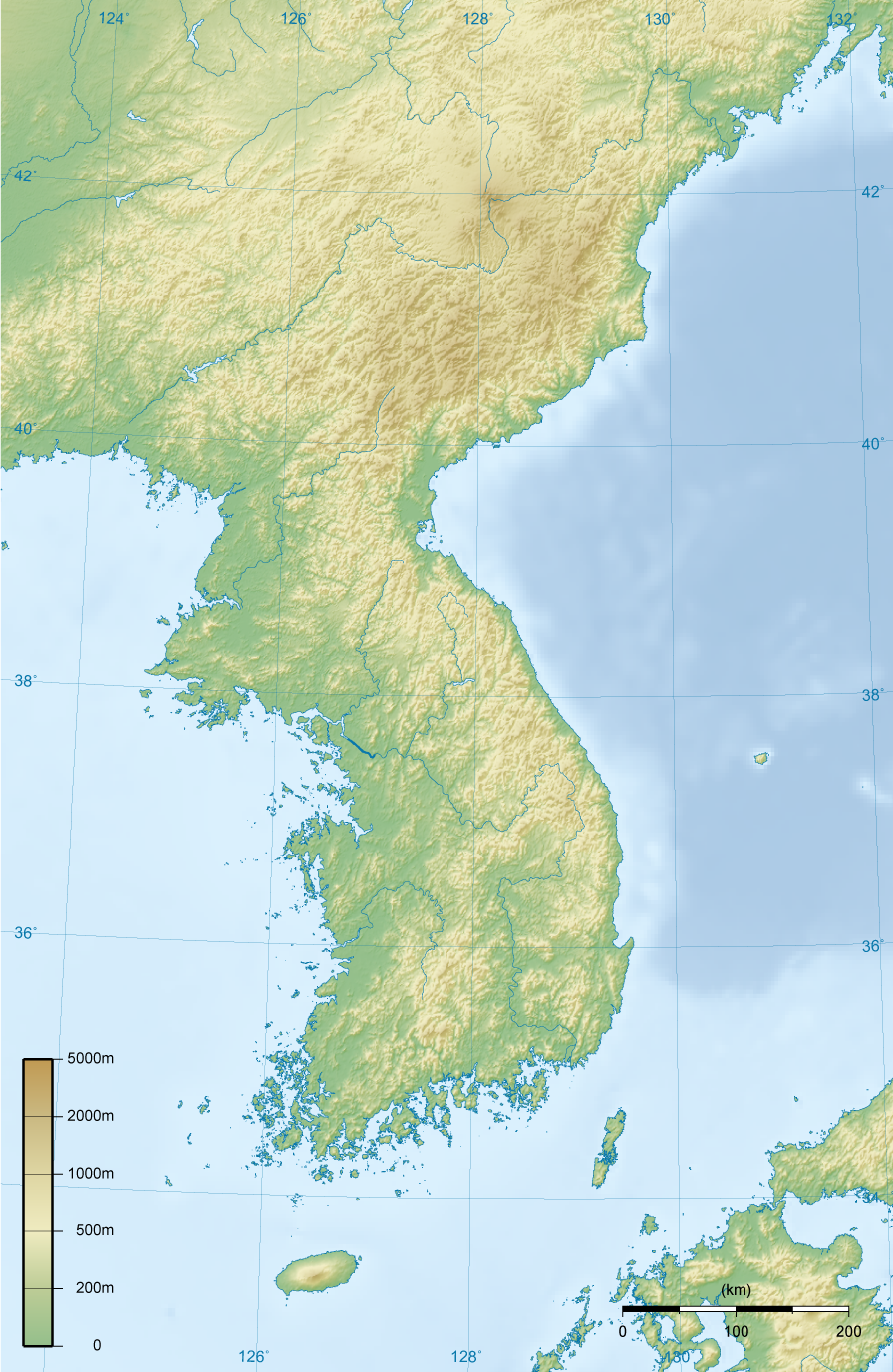 Topographic map of Korean Peninsula.